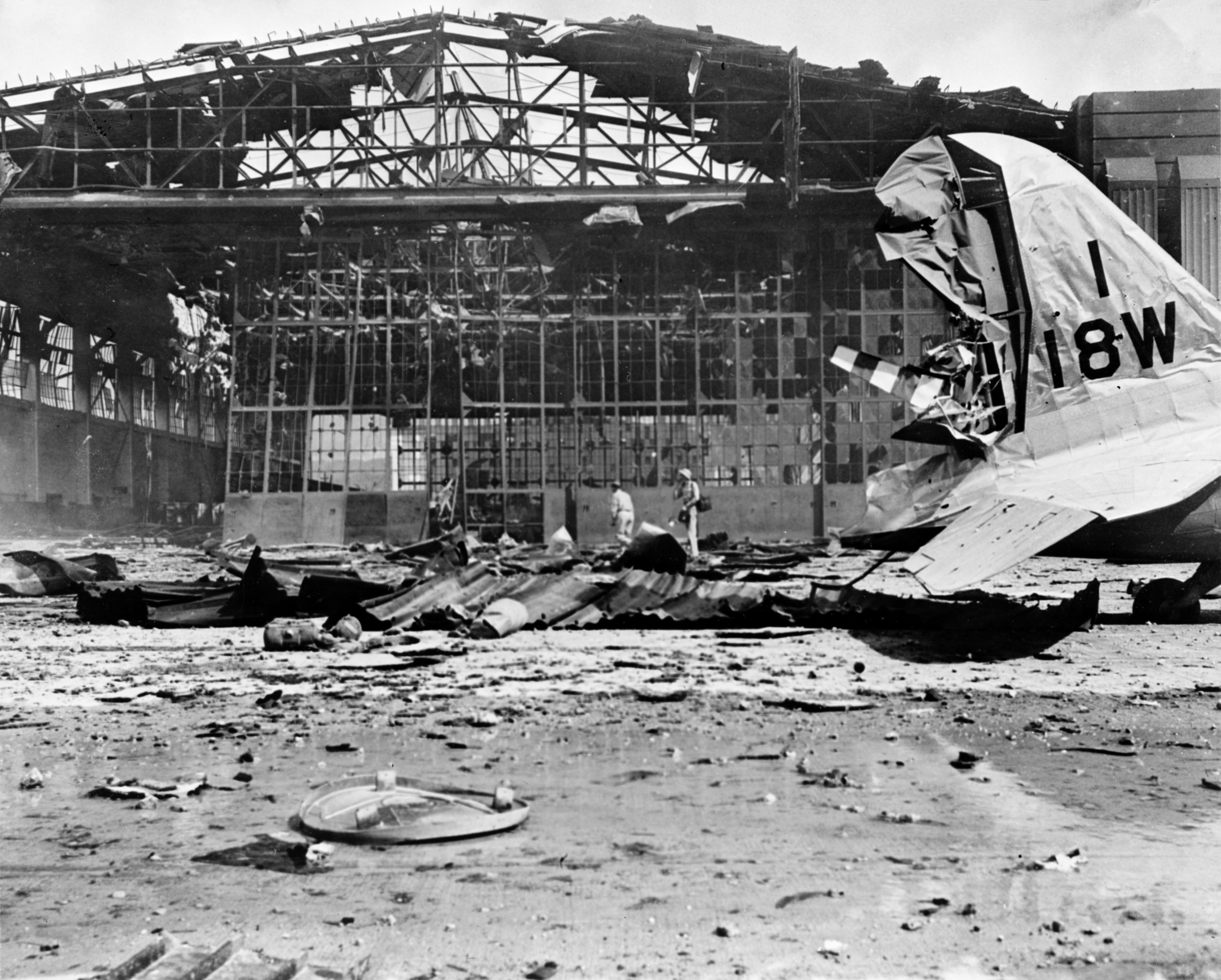 Rear view of the heavily damaged Hangar No. 11 at Hickam Field, Hawaii, on 7 December 1941. In front is the tail of a damaged Douglas B-18 Bolo bomber from the 18th Bombardment Group (Heavy). The two men near the hangar are Captain Ronald D. Boyer of the Signal Corps and Private Elliot C. Mitchell from the 50th Reconnaissance Squadron. The photo was taken just as a Japanese plane began machine-gunning the area.